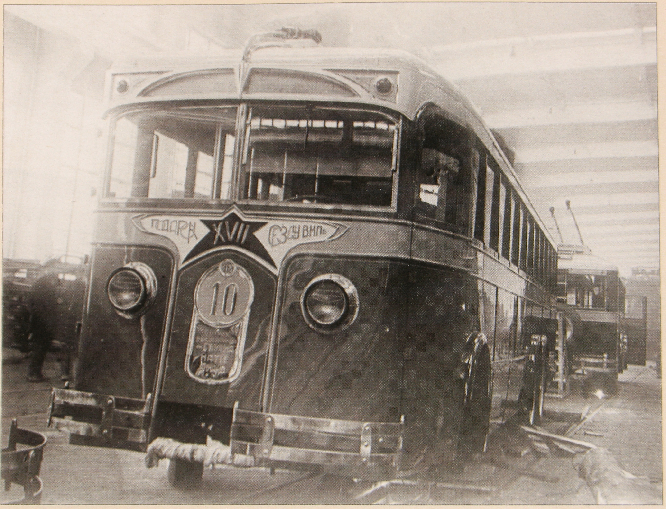 Present to 17th Congress of the AUCP (B). The Moscow's first trolleybus LK-1. Moscow in 1934.